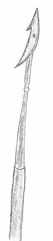 Toggle Iron